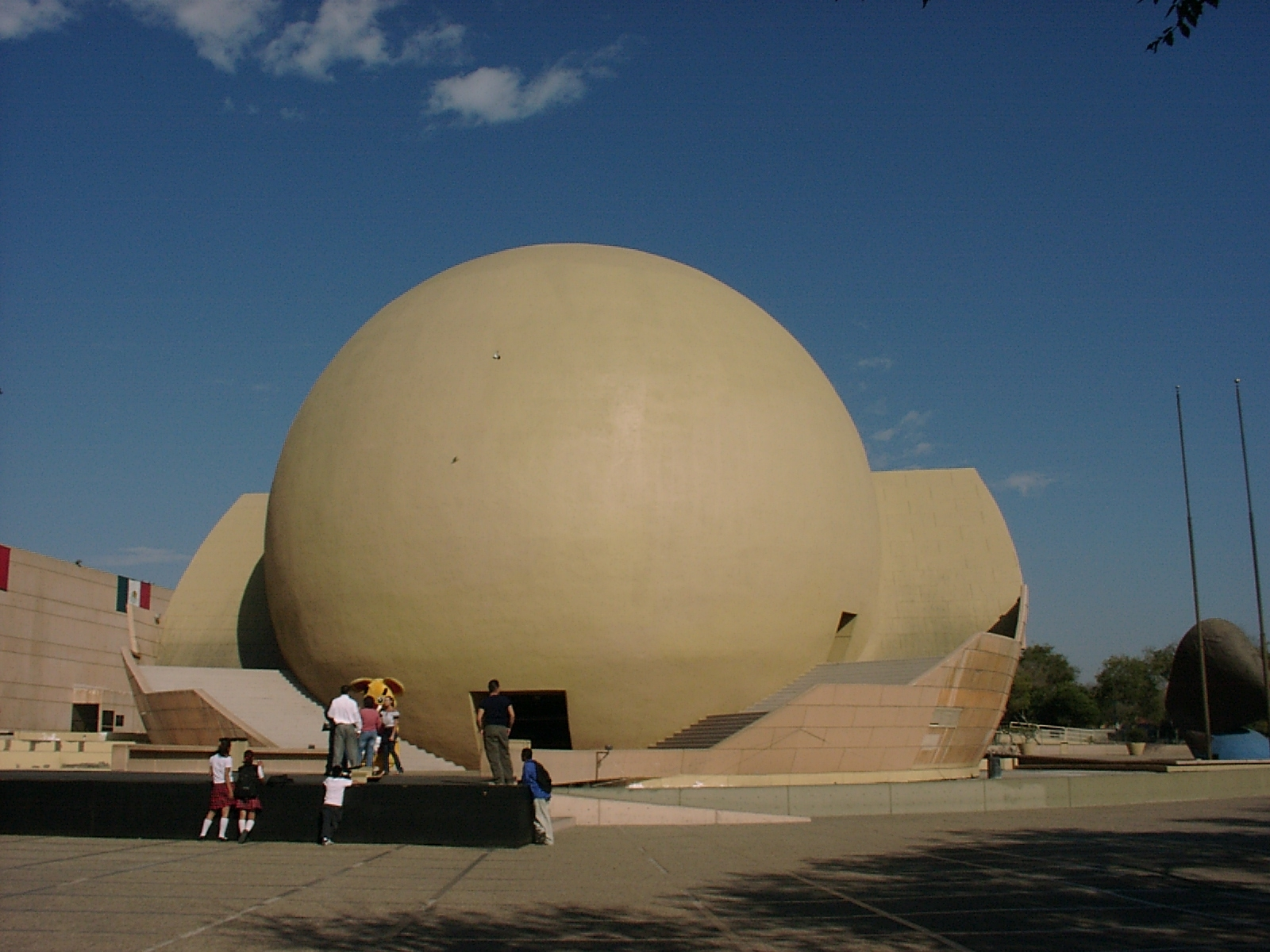 Tijuana Cultural Center (CECUT) in Tijuana, Mexico